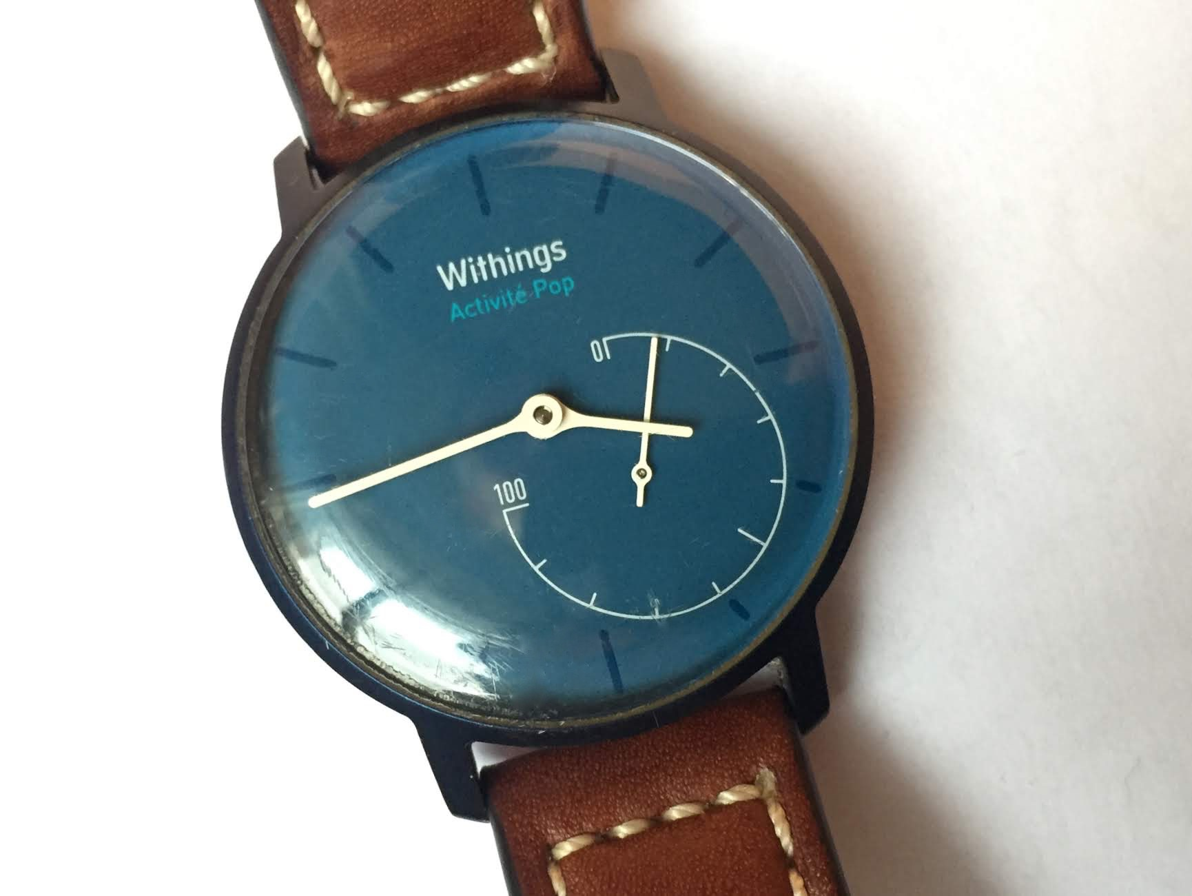 Smartwatche Withings Activité Pop